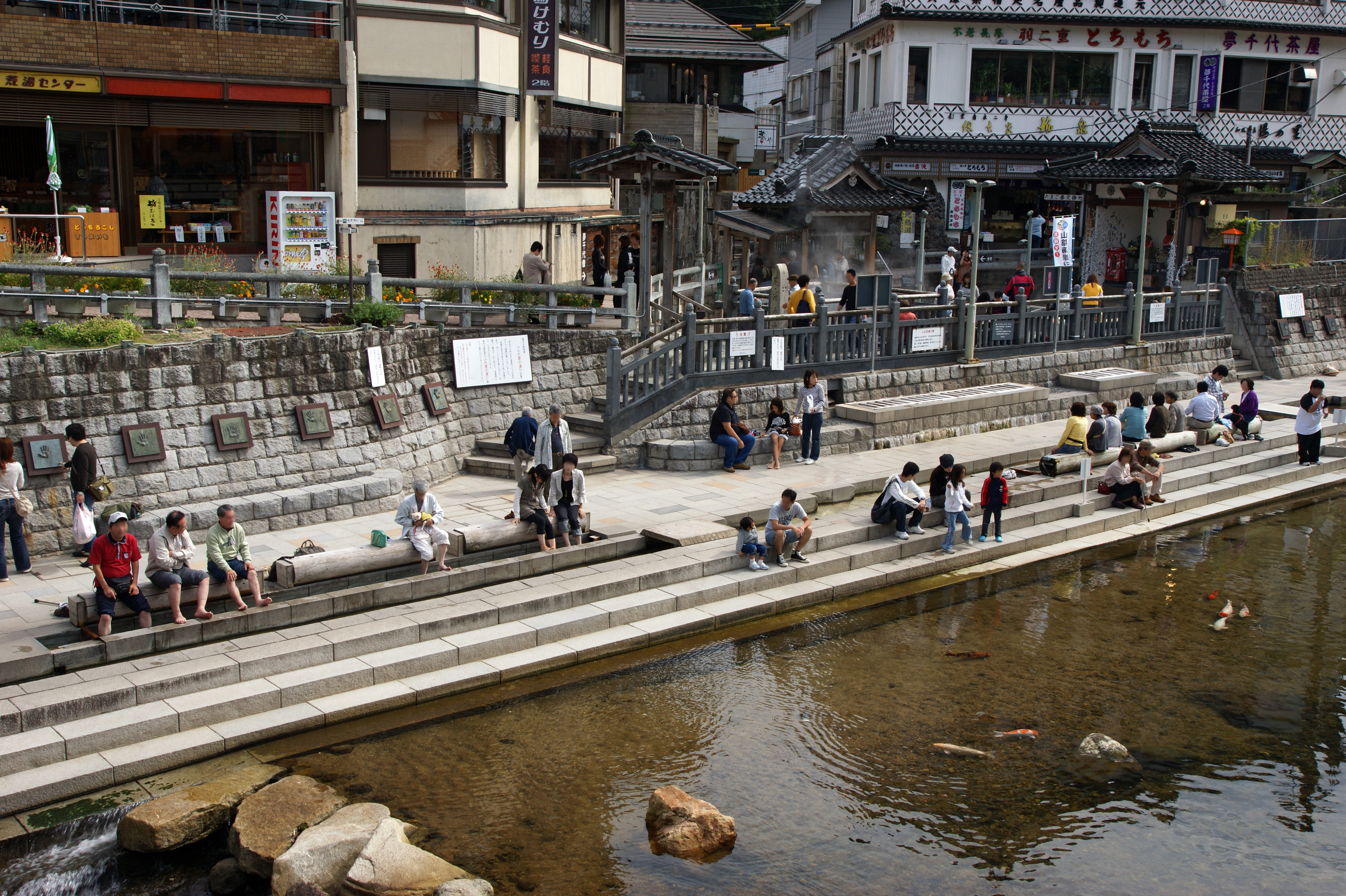 Yumura Onsen, Shinonsen, Hyogo prefecture, Japan